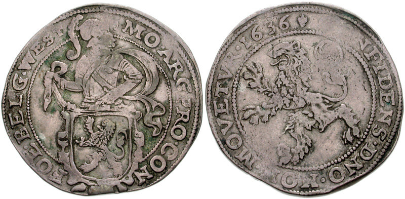 Low Countries, Westfriesland. AR Leeuwendaalder (41mm, 26.93 g). Dated 1636. Knight above coat-of-arms Heraldic lion to left; mm: lis. Delmonte 836; KM 14.2. VF, toned.